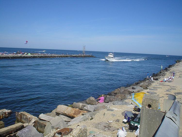 A boat travels back from the Atlantic Ocean as visitors fish on the rocks.